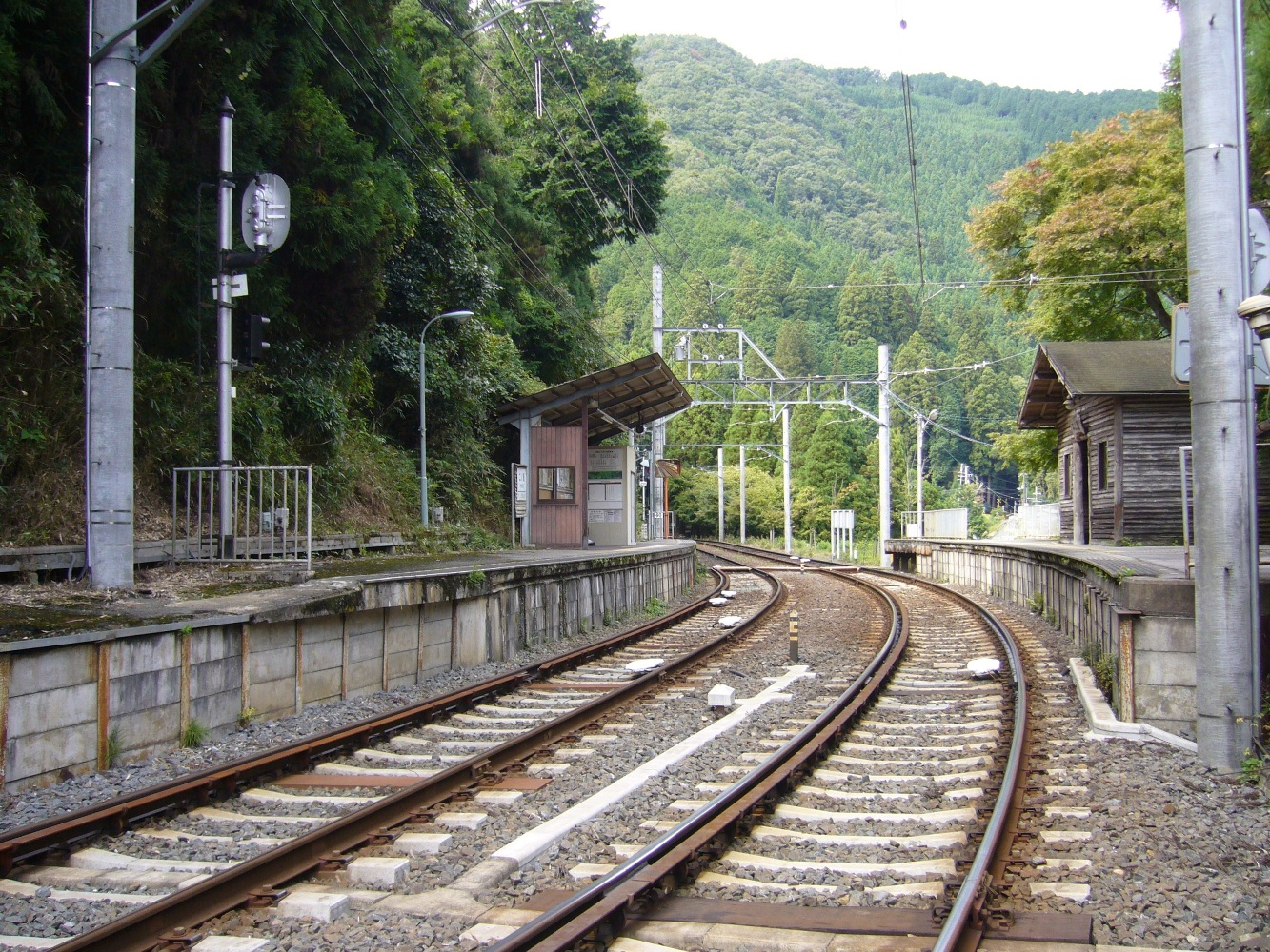 Ninose Station of the Eizan Electric Railway Kurama Line. View from the Demachiyanagi-side of the station; left side is the platform to Kurama and the right side is to Demachiyanagi.